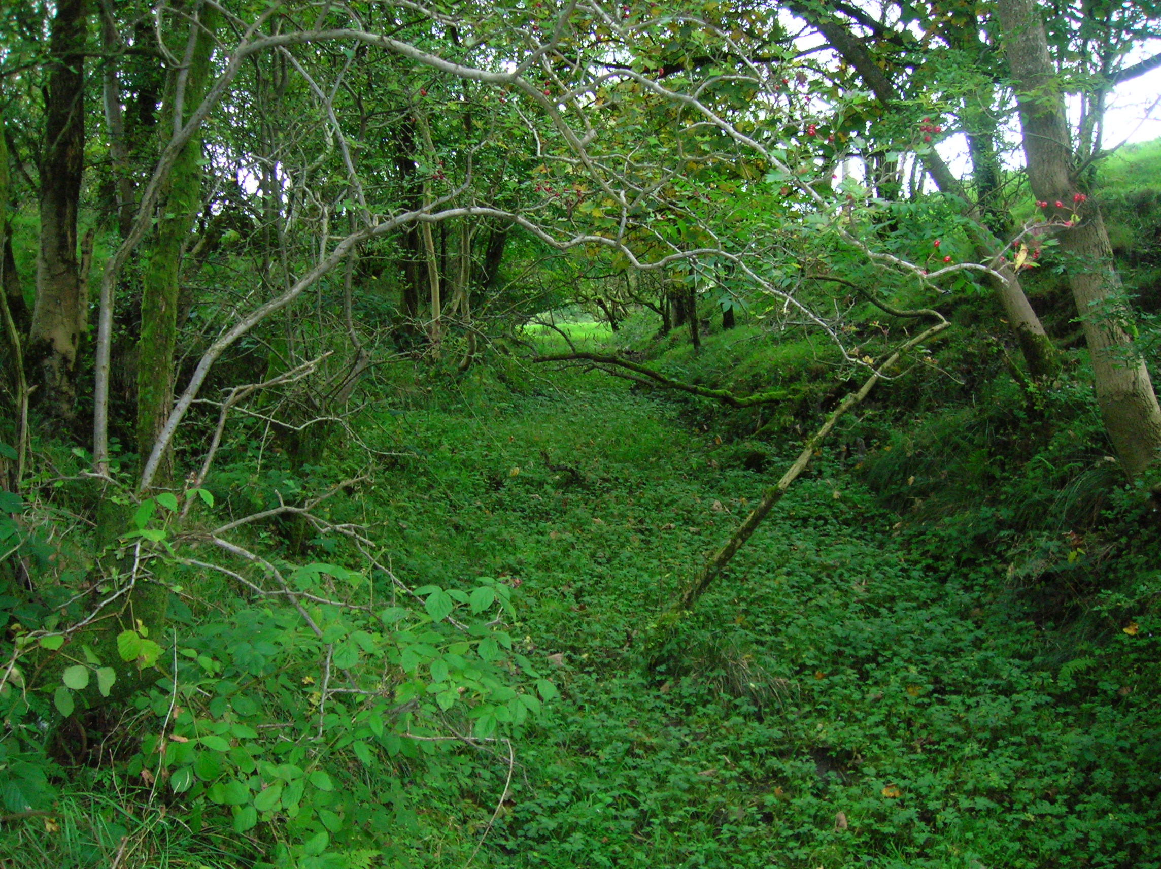 The old track from Lylestone to High Monkredding Farm and limestone quarry. Kilwinning, Ayrshire, Scotland.